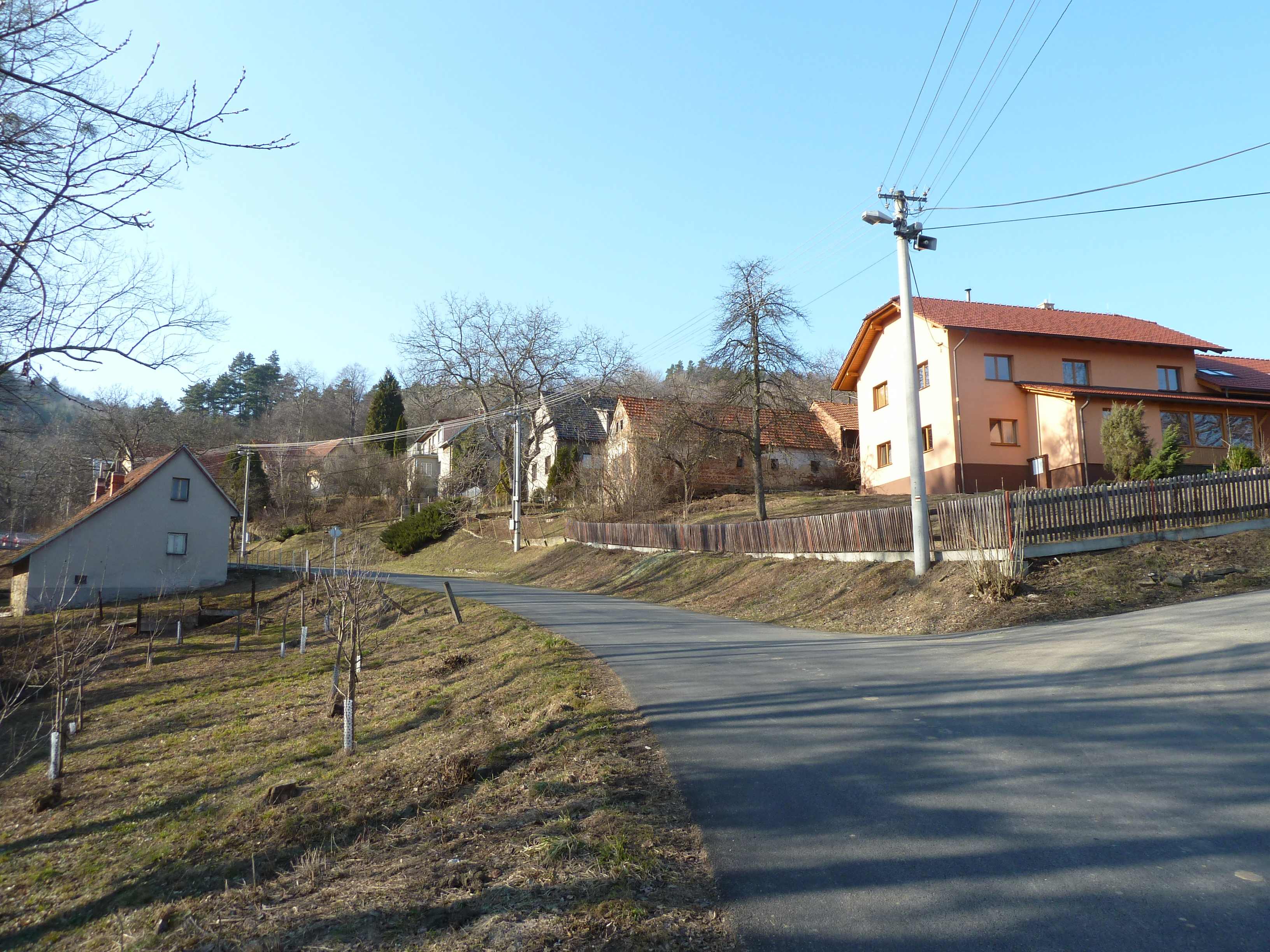 village Straník, part of town Nový Jičín (north-eastern Moravia, Czech Republic)